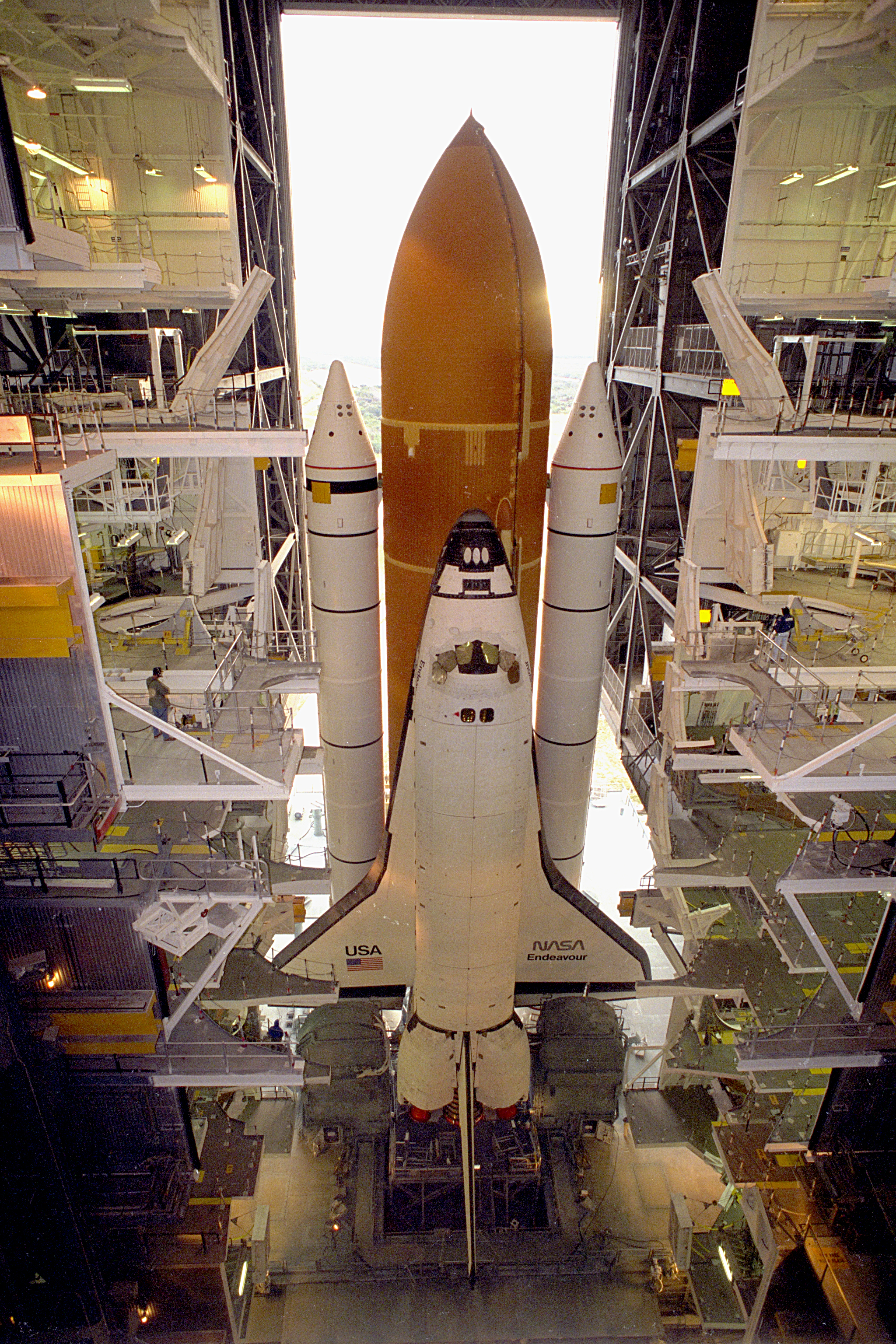 A massive 19 million pounds (8.6 million kilograms) of Space Shuttle, support and transport hardware, inch toward Launch Pad 39A from the Vehicle Assembly Building. The fully assembled Space Shuttle Endeavour, minus its payloads, weighs about 4.5 million pounds (2 million kg.); the mobile launch platform on which it was stacked and from which it will lift off weighs 9.25 million pounds (4.19 million kg.) and the crawler-transporter carrying the platform and Shuttle checks in at around 6 million pounds (2.7 million kg.). Once at the pad, the Shuttle and launch platform will be positioned atop support columns to complete preparations for the second Shuttle launch of 1995. Primary payload of Mission STS-67 is the Astro-2 astrophysics observatory, carrying three ultraviolet telescopes that flew on the Astro-1 mission in 1990. STS-67 also is scheduled to become the longest Shuttle flight to date, lasting 16 days.